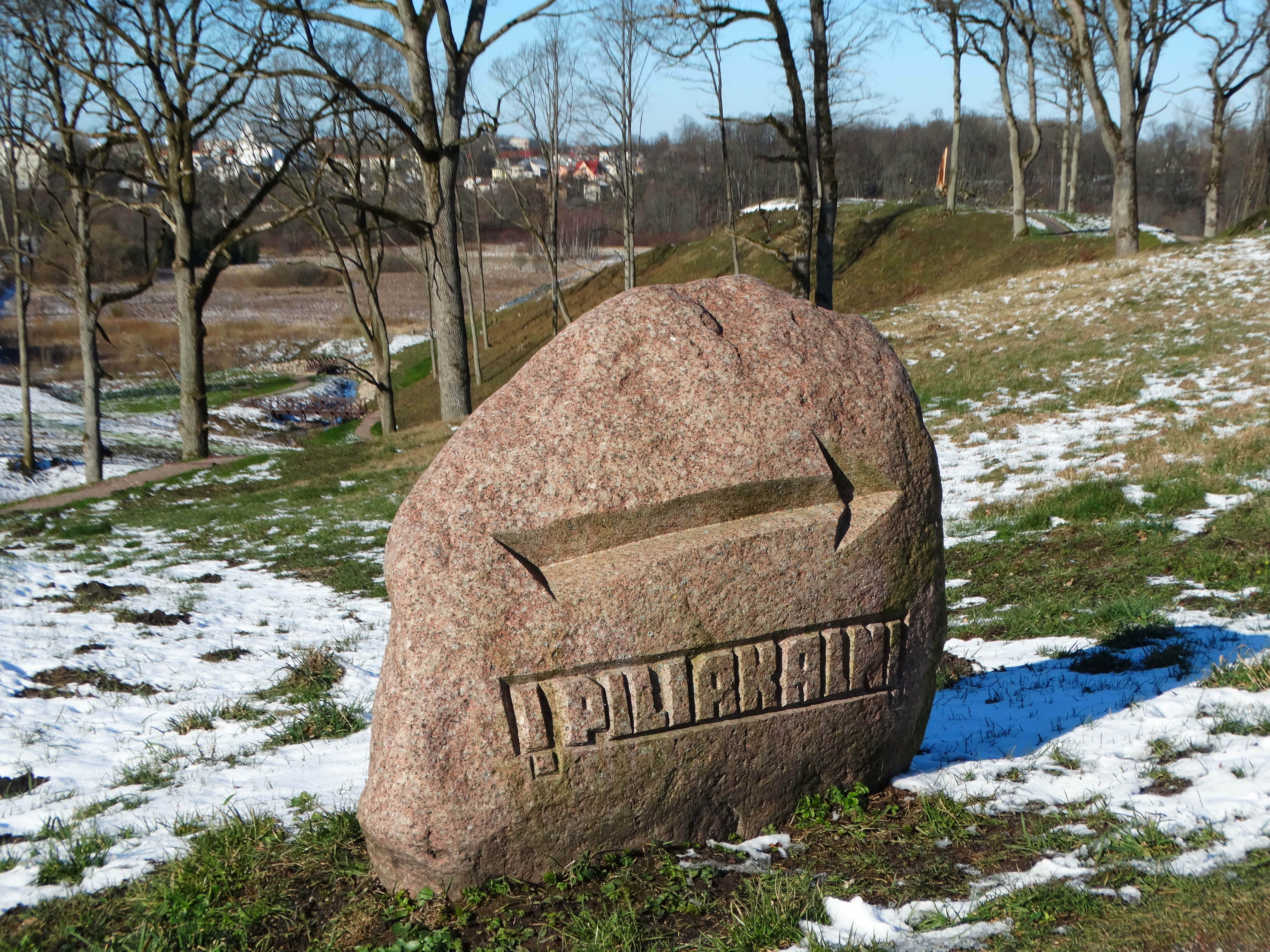 Kalniškė hillfort, Gargždai, Lithuania